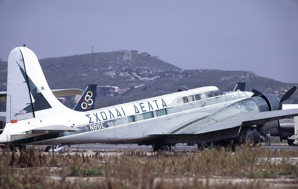 Ex USAAF Douglas B-23 N86E of John W. Mecom stored at Athens (Hellinikon) Airport. Douglas B-23 bomber (USAAF serial 39-59) using DC-3 wings. This aircraft converted to UC-67 transport role. Sold to Pan Am in 1945. Bought by Mecom Oil in 1964. Instructional airframe for the Delta Technical School in the 1970s, broken up in the Summer of 1986.